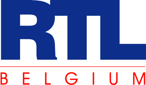 Logo of RTL Belgium